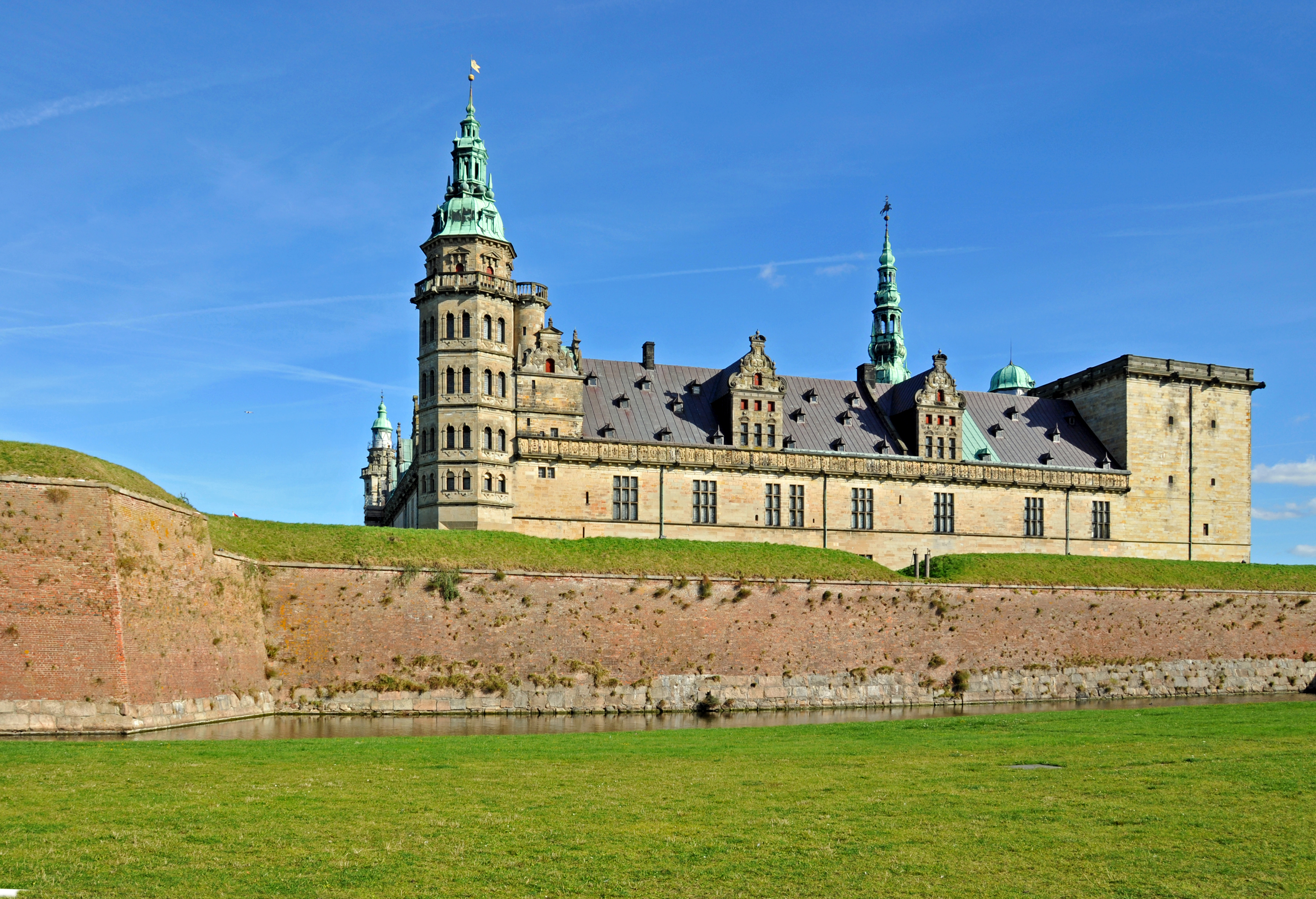 The Castle is in Elsinore, at the seaward approach to The Sound Øresund, is one of northern Europe's most important Renaissance castles. Known all over the world from Shakespeare's play Hamlet, it is also the most famous castle in Denmark. King Frederik II's Kronborg is both an elegant Renaissance castle and a monumental military fortress surrounded by major fortifications with bastions and ravelins. Some of the historical rooms house collections of Renaissance and Baroque interiors, and among the most important attractions are the 62 metre long ballroom, the wonderfully preserved chapel and the statue of "Holger the Dane". It is named after King Frederik II in 1577, but its history goes right back to the 1420s, when Erik of Pomerania built the strongly fortified castle known as "Krogen" ("The Hook"). From here the king’s men controlled the shipping in the Sound and collected the unpopular Sound Dues.